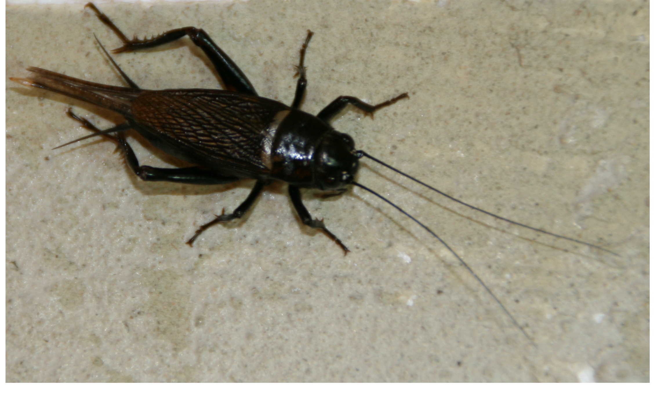 Gryllus bimaculatus